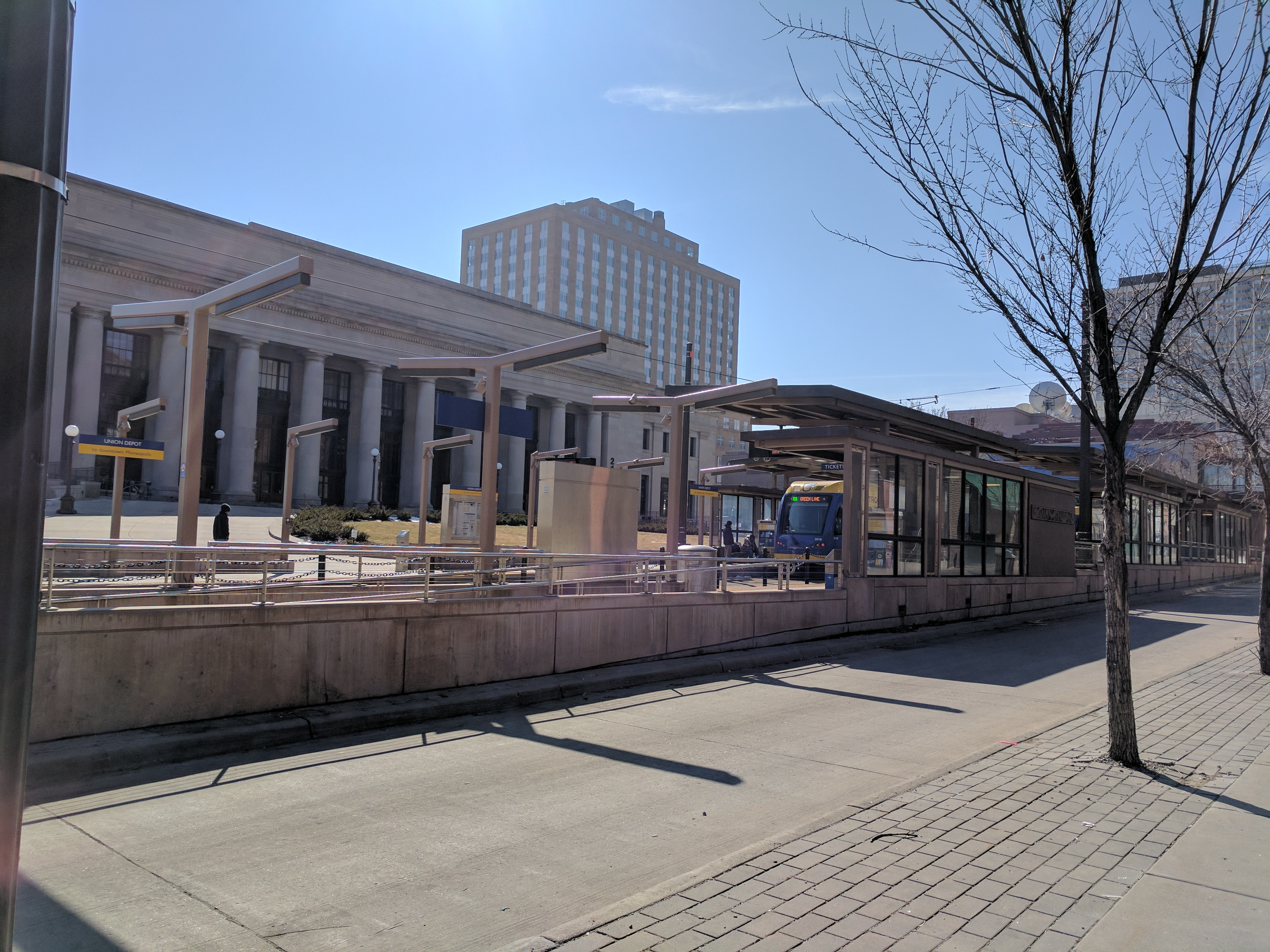 A picture of the light rail station outside of the Union Depot train station in Saint Paul, MN.